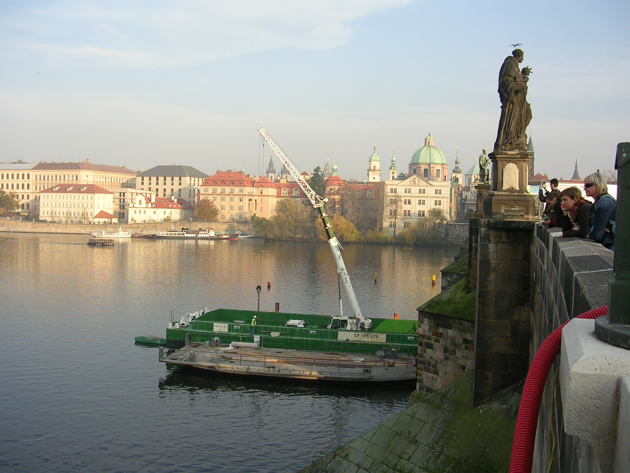 Prague. Reconstruction of the Charles Bridge.